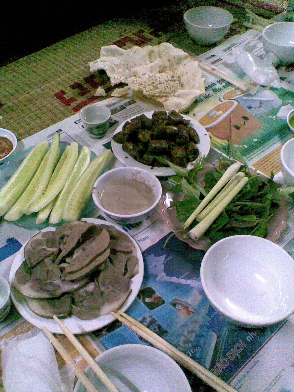 Dogmeat